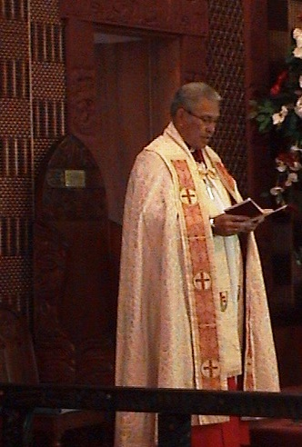 The Right Reverend Ngarahu Katene Bishop of Te Manawa O Te Wheke